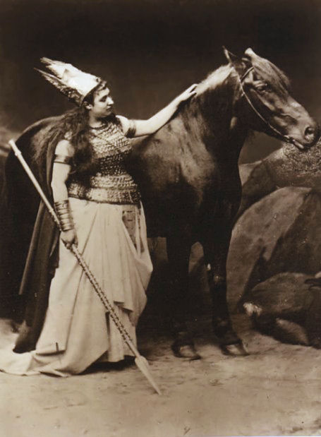 Amalia Materna, the first Bayreuth Brünnhilde with Cocotte, the first Bayreuth Grane.